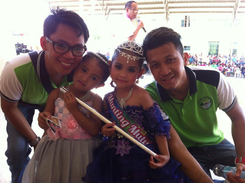 From left to right: Kag. Labus, two Munting Mutya ng Poblacion candidates and Kag. Galzote.